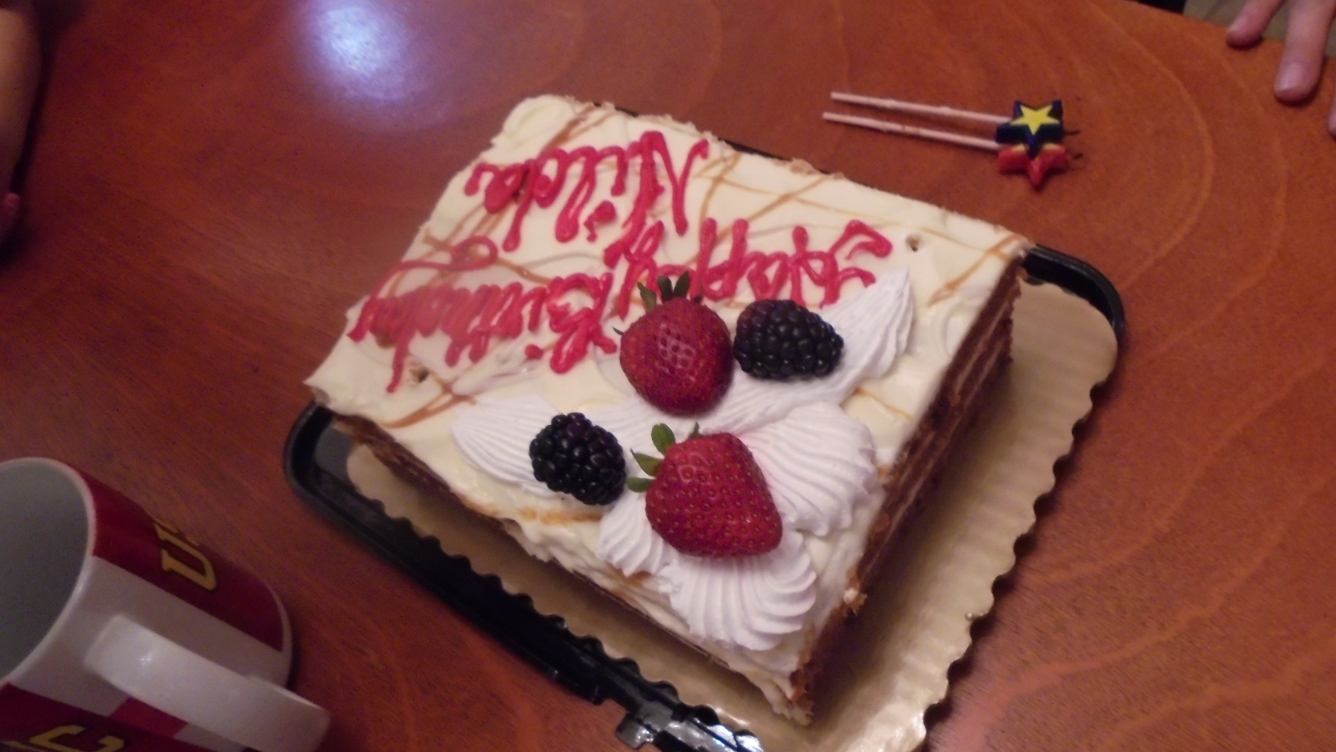 Birthday cake